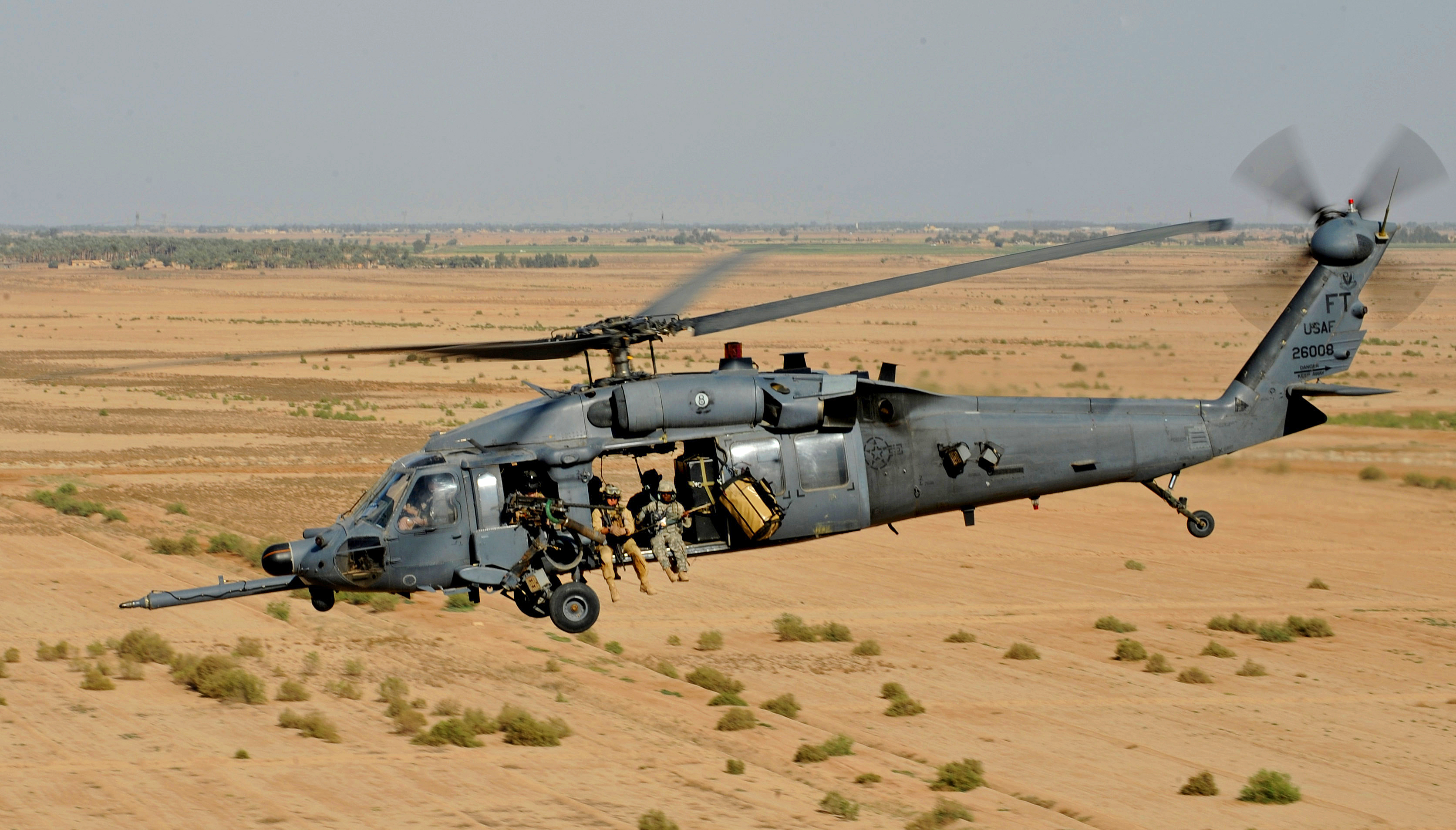 A U.S. Air Force HH-60 Pave Hawk helicopter carrying pararescuemen flies over the Iraqi landscape during a proficiency exercise outside Joint Base Balad, Iraq, April 10, 2009. The crew and airmen are assigned to the 64th Expeditionary Rescue Squadron.